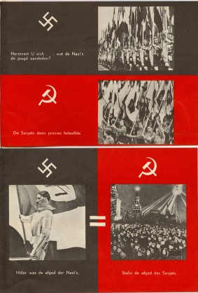 A document from the collection of Henri Max Corwin, depicting the Propaganda methods in the communist Russia and in the national-socialist Germany.